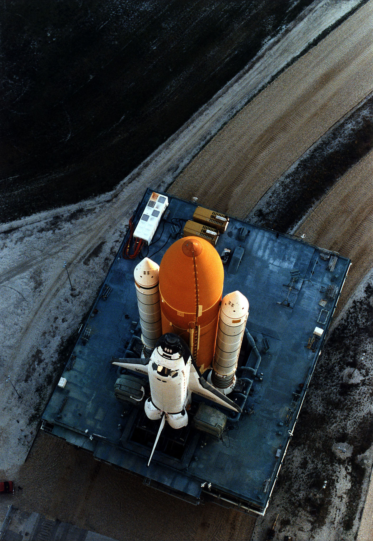 KENNEDY SPACE CENTER, FLA. - The Space Shuttle Discovery on its Mobile Launcher Platform slowly moves through the high bay doors of the Vehicle Assembly Building en route to Launch Pad 39A, where Discovery is scheduled to lift off on the STS-82 mission on Feb. 11. A seven-member crew will perform the second servicing of the orbiting Hubble Space Telescope (HST) during the 10-day STS-82 mission.